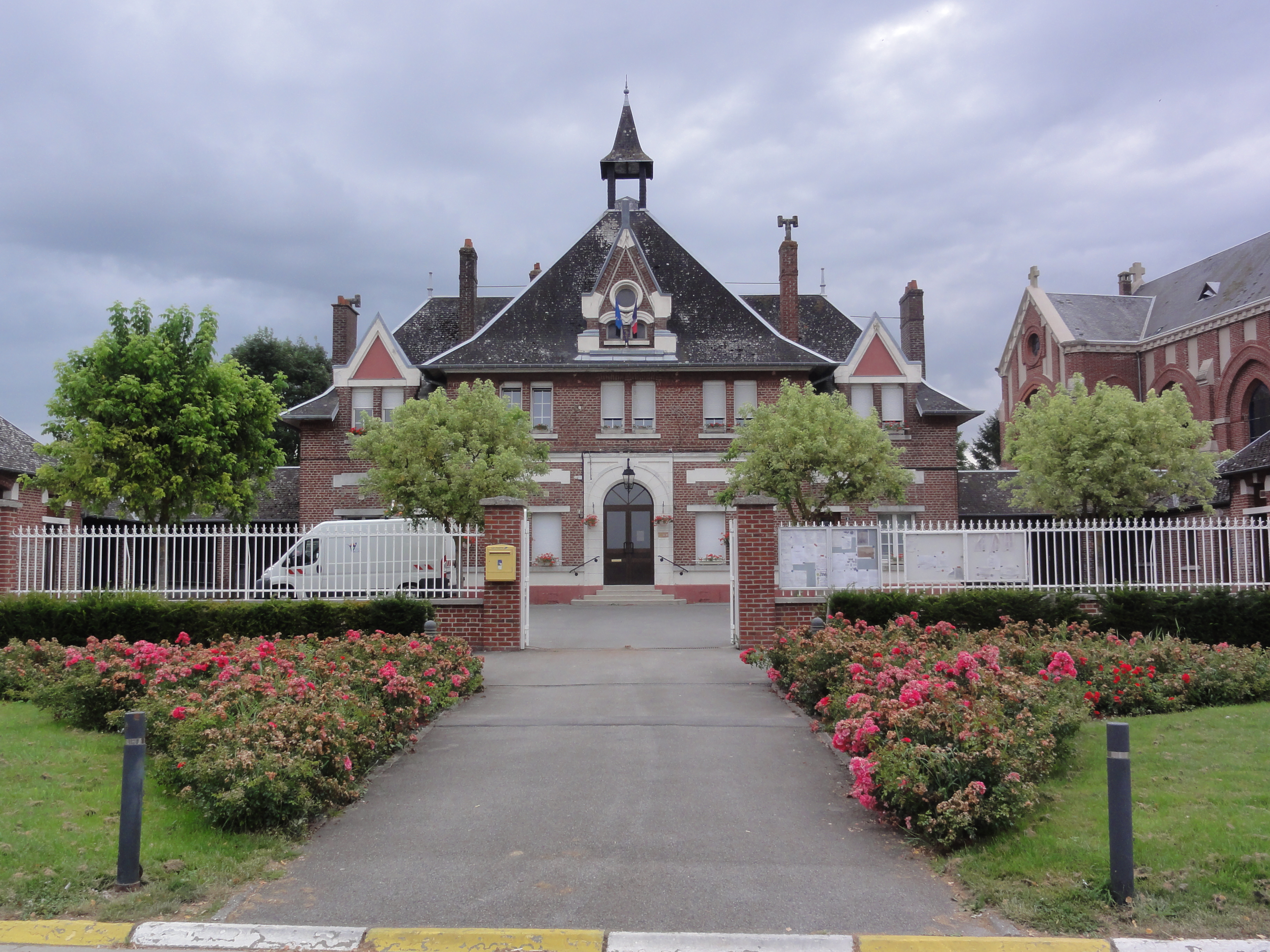 Urvillers (Aisne) mairie